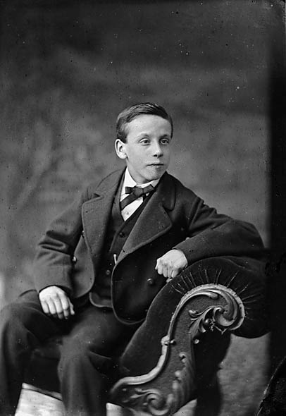 1 negative : glass, wet collodion, b&w ; 11 x 8.5 cm.